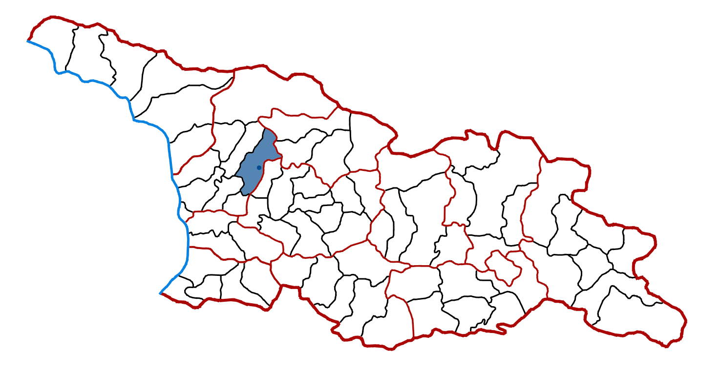 Location of Martvili district in Georgia